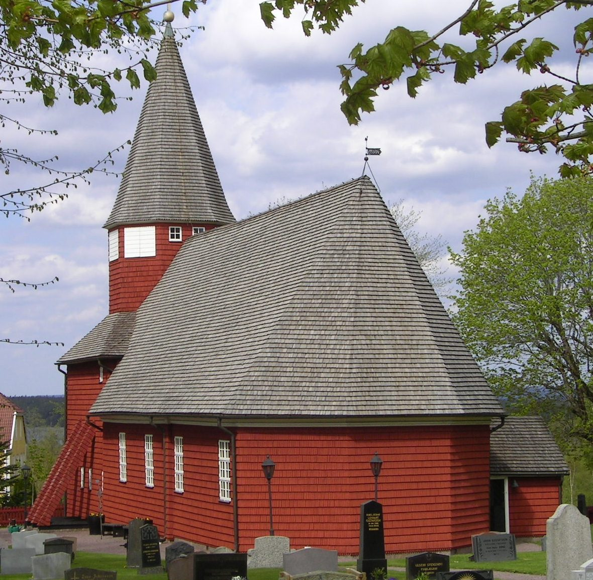 The Church of Bondstorp in the province of Småland, Sweden. Seen from the east.